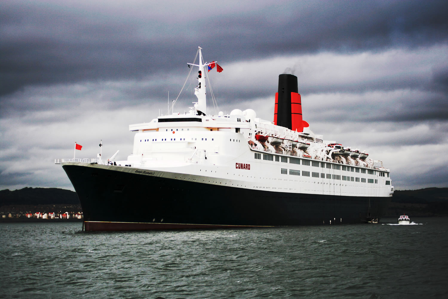 The Cunard Liner RMS Queen Elizabeth 2 anchored off South Queensferry on its last tour round the UK.